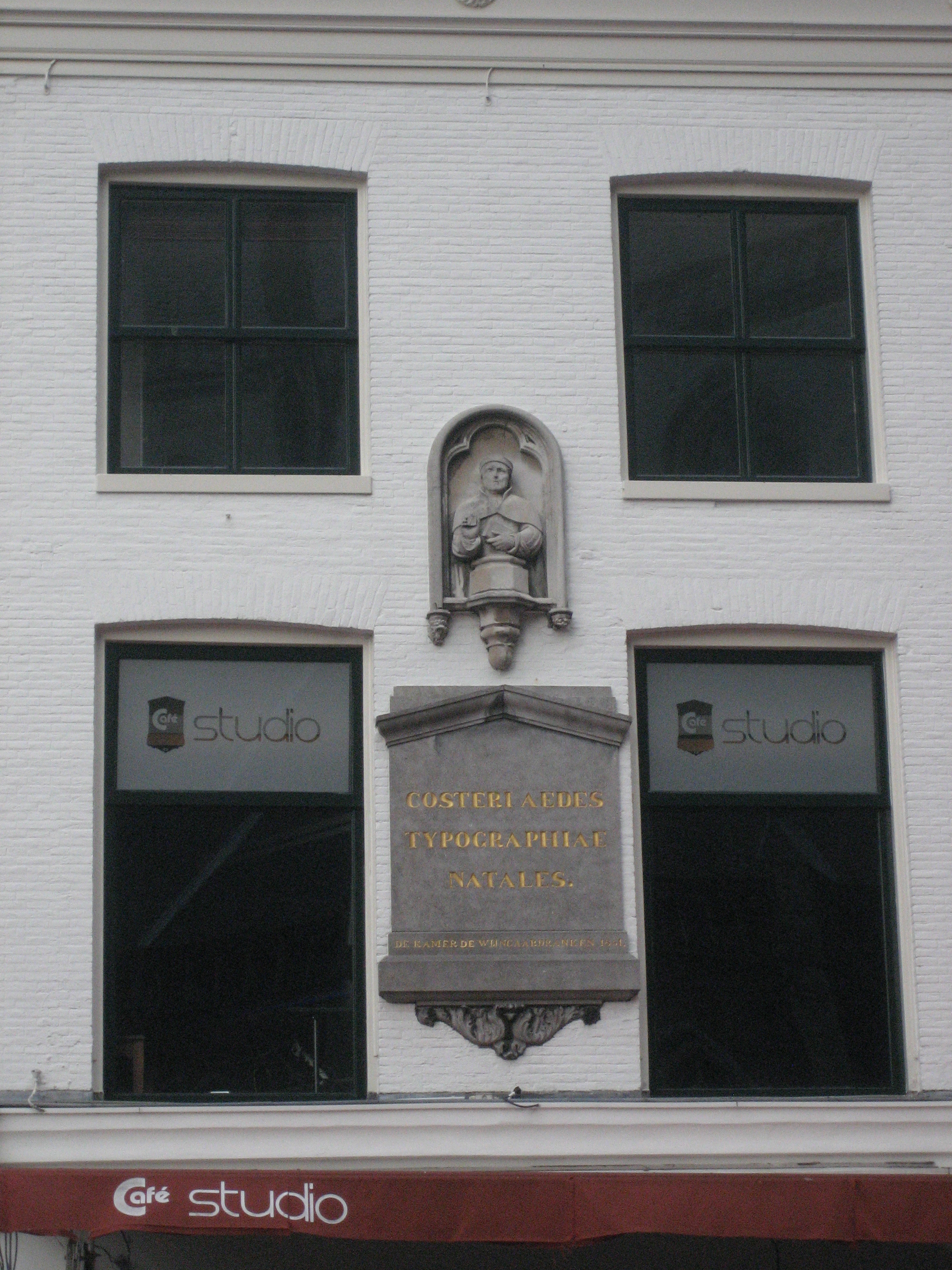 Gable stone Grote Markt, Haarlem (The Netherlands), in honor of the supposed Dutch inventor of printing, Laurens Janszoon Coster. Latin: Costeri aedes typographiae natales. De Kamer De Wijngaardranken, 1851